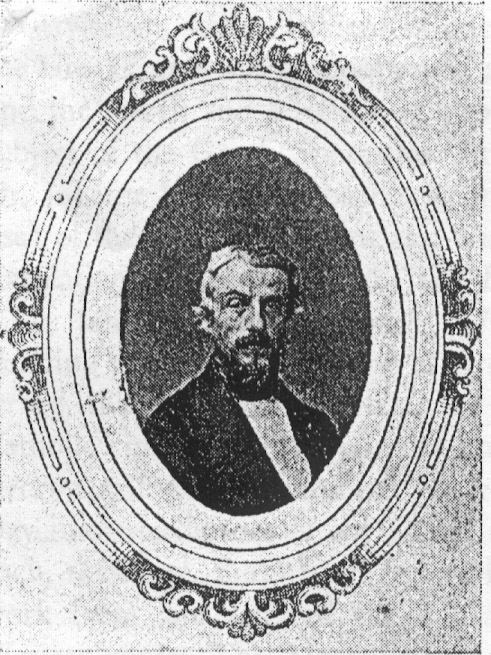 Photo appears to date from circa 1865, year of first publication of the Emphatic Diaglott, but not to have been first published until 1900 in an obituary in the year of Wilson's death the magazine of Wilson's church Church of God of Blessed Hope (now called Abrahamic Faith Beacon magazine), which republished the photo several times - most recently in the 2006 reedition of the Emphatic Diaglott.